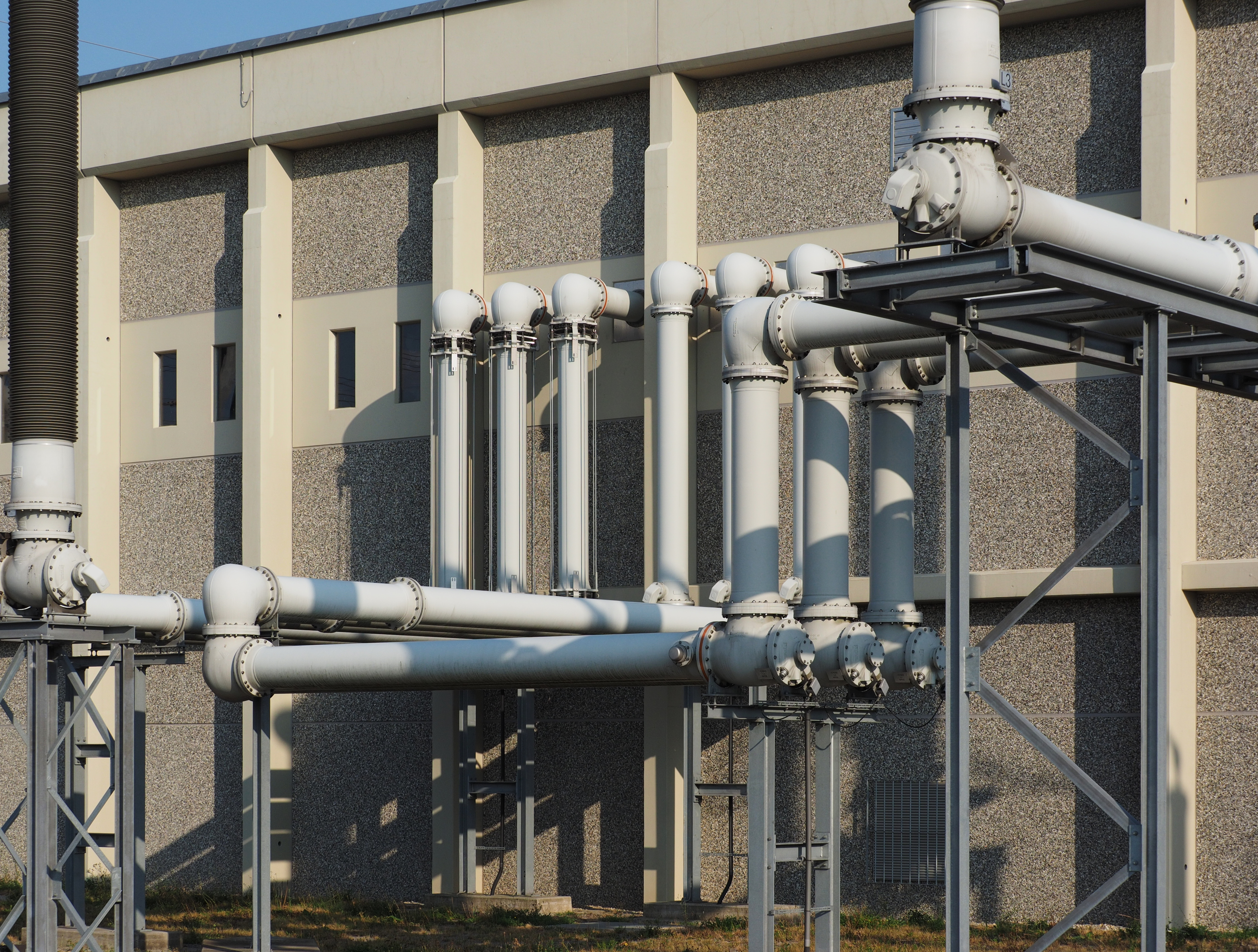 SF6 insulated high voltage lines at Leingarten substation, Germany